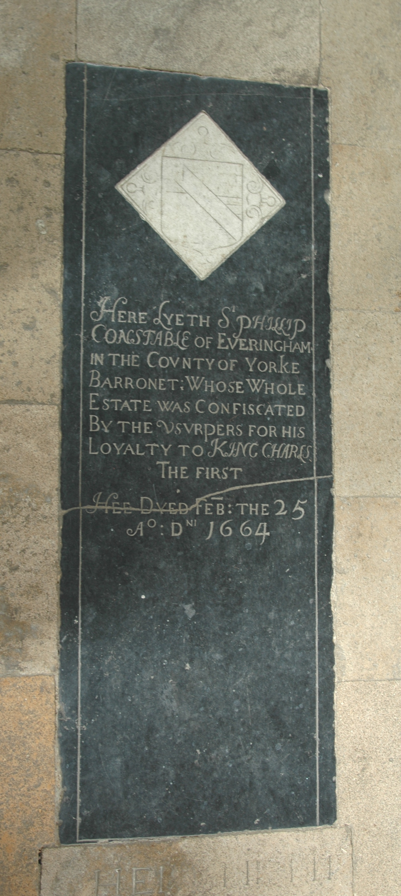 Tombstone of Sir Philip Constable, baronet, in the south aisle of St Mary the Virgin parish church, Steeple Barton, Oxfordshire